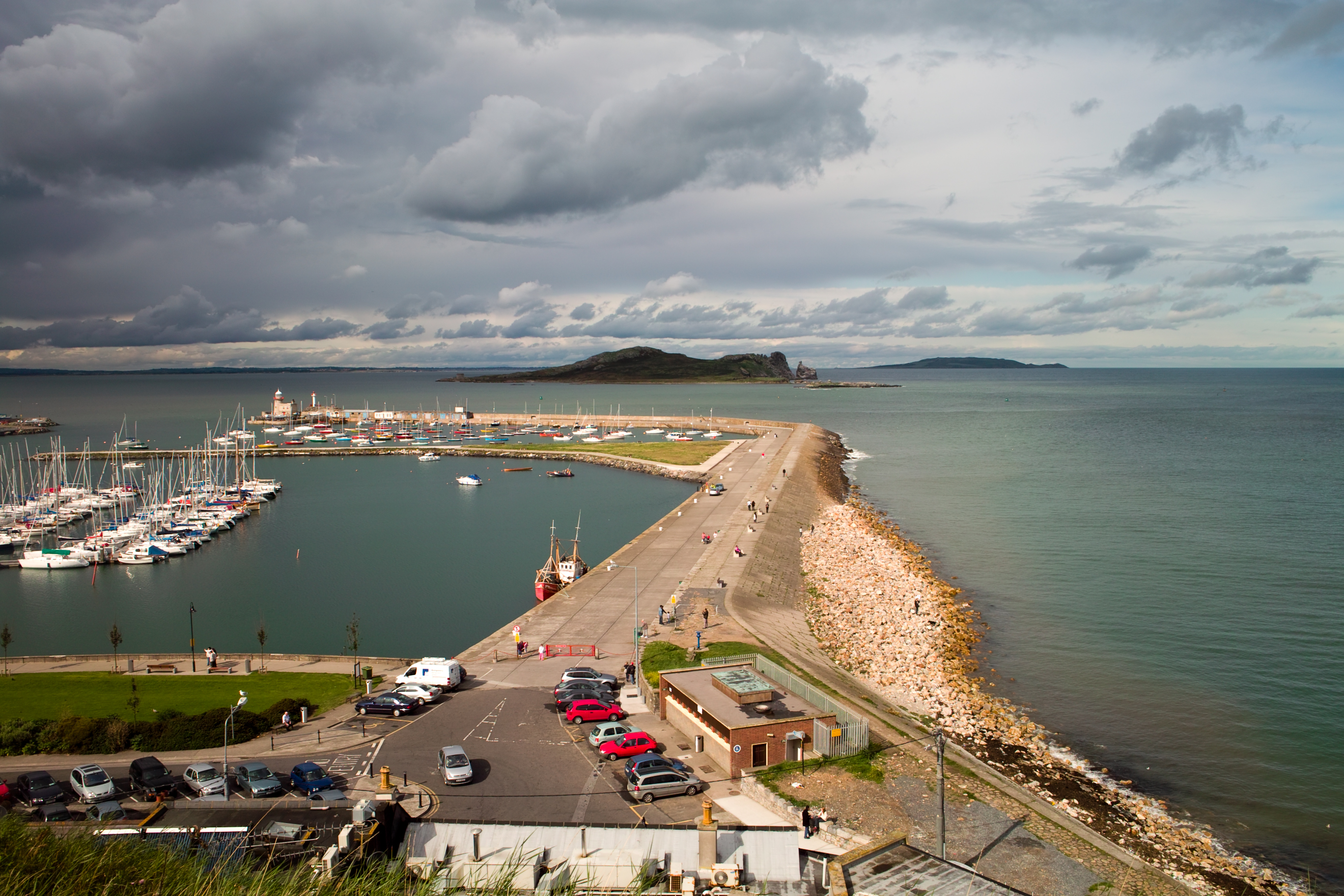 Howth Harbour is a fishing and yachting port, and popular suburban resort on the north side of Howth Head, 15km (9½ miles north-east of the Dublin city centre, Ireland. Ireland's Eye is the name of the island in the middle of the photograph.